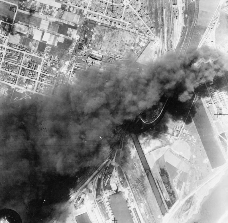 Dunkirk and the Retreat From France 1940 Aerial view of burning oil tanks at Dunkirk, June 1940.